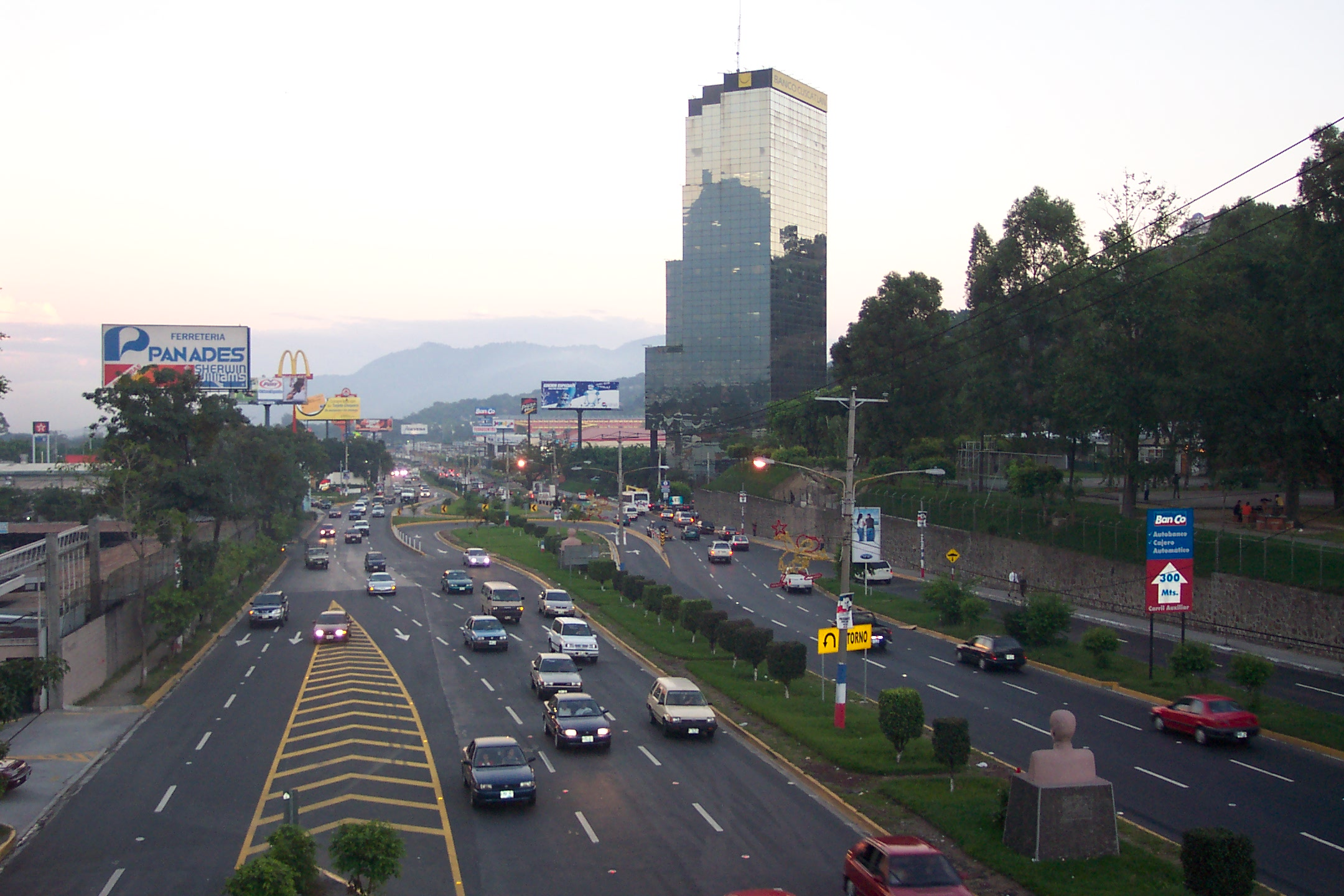 This is a view of the Boulevard Proceres, which is on the south side of the city, here looking east, towards the Hermano Lejano. Note the "Banco Cuscatlan" tower is now (as of 2011) the Citibank tower.